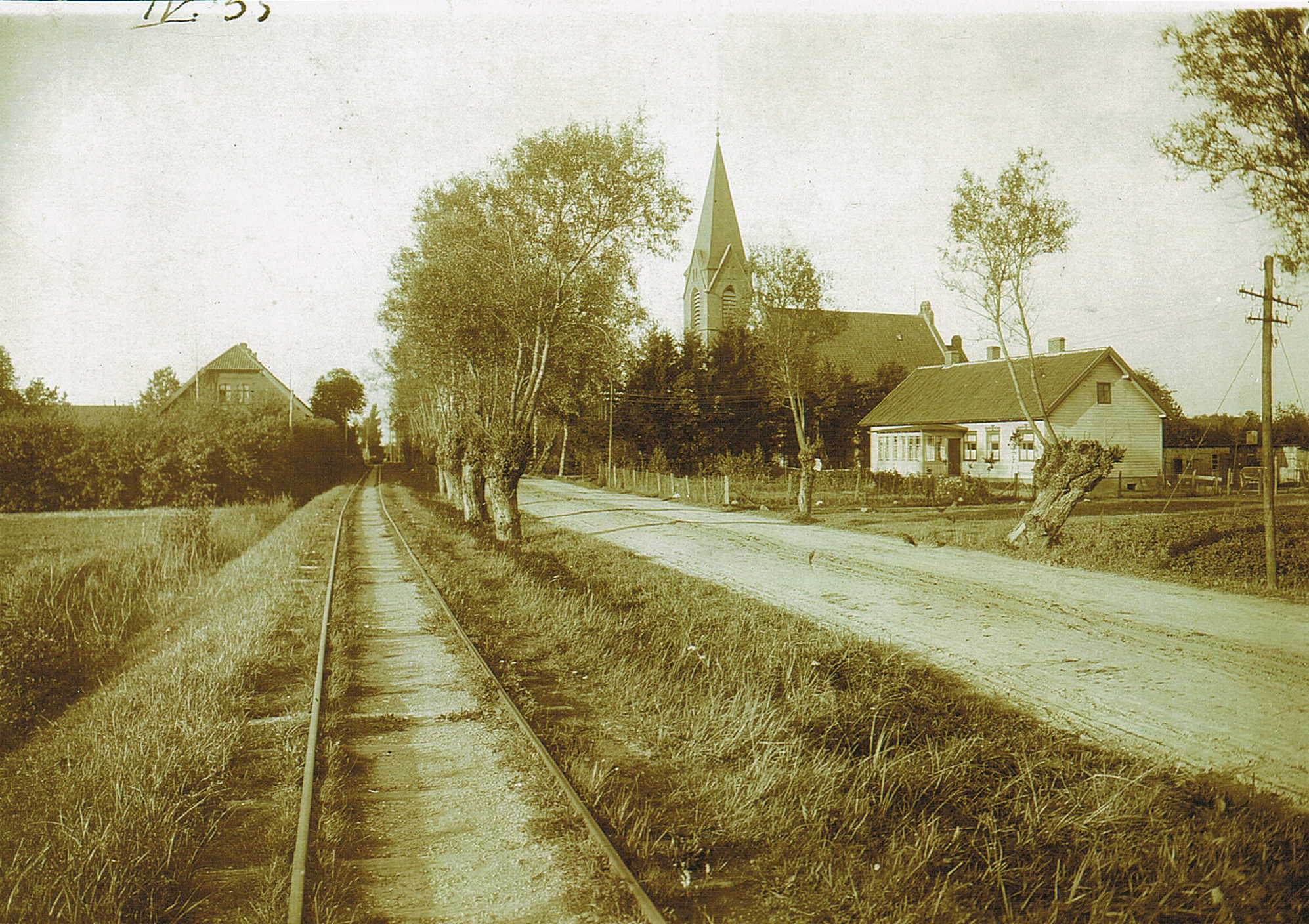 Plikiai, april 1935